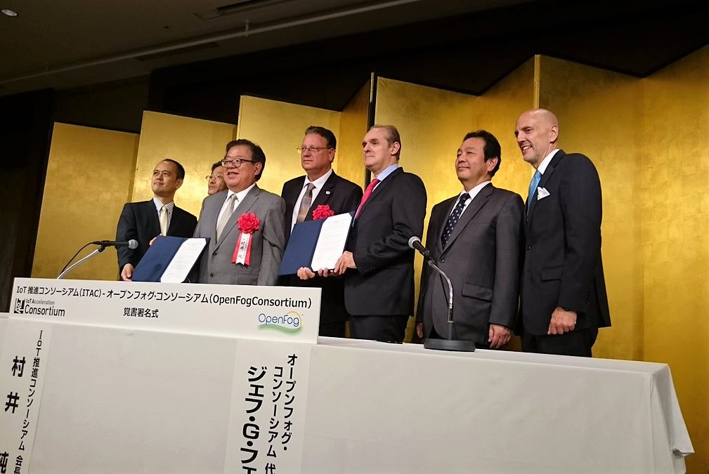 Agreement signing ceremony between the OpenFog Consortium and the Japanese Ministry of Economy, Trade, & Industry